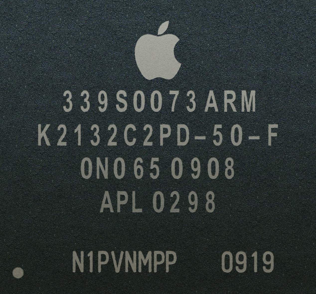 An illustration of the application processor SoC in Apple's iPhone 3GS Manufactured by Samsung for Apple who calls it APL0298. The ARM-processor part was manufactured in week 8, 2009. The RAM was manufactured in week 19, 2009. Inspiration for the image comes from [1][2]